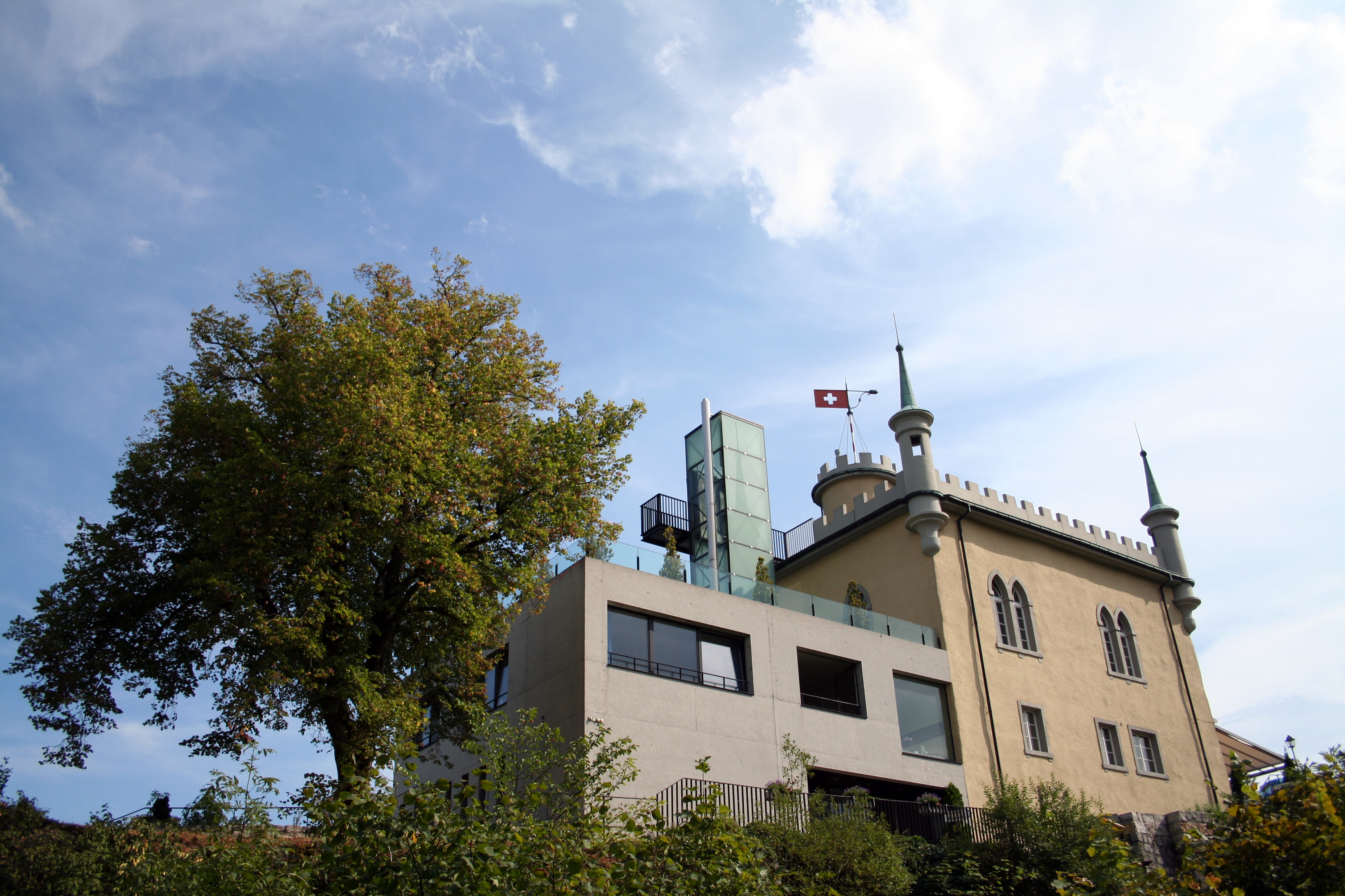 Sälischlössli (Neu-Wartburg Castle) in Starrkirch-Wil near Olten